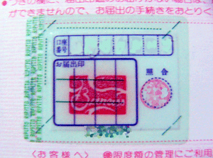 Photo of a foreigner's "ginko in" (bank signature-seal) in a typical Japanese bank savings account passbook. The bank has been defunct for 5+ years All identifying bank details, account number, and bank employee's signature-seal have all been deliberately blurred or removed. This particular "ginko in" is no longer in use, but shows the freedom of "ginko in" design, size, and style permitted in modern Japan. Note the 1.0 x 1.5 cm boundary box showing the maximum size permitted, and the round space for a bank employee's "mitome in" signature-seal alongside the banking customer's seal. Note also the protective clear plastic sticker placed over the seal to protect it from dirt, marks, and smudges. The Japanese bankbook and "ginko in" restrictions shown here typical. The individual "ginko in" design shown here is, however, an extreme example intended to show the outermost limit of acceptable "ginko in" design.